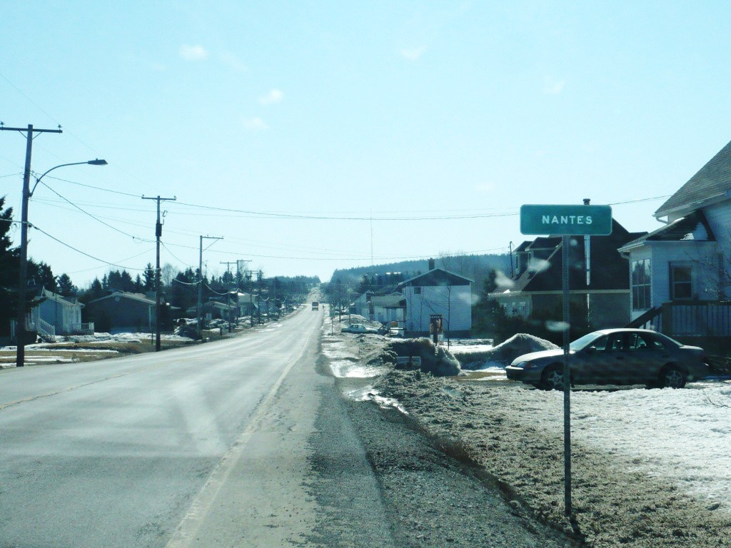 Image of the main street of Nantes, Qc (Canada), seen from the shoulder of road #161, towards Lac-Megantic.